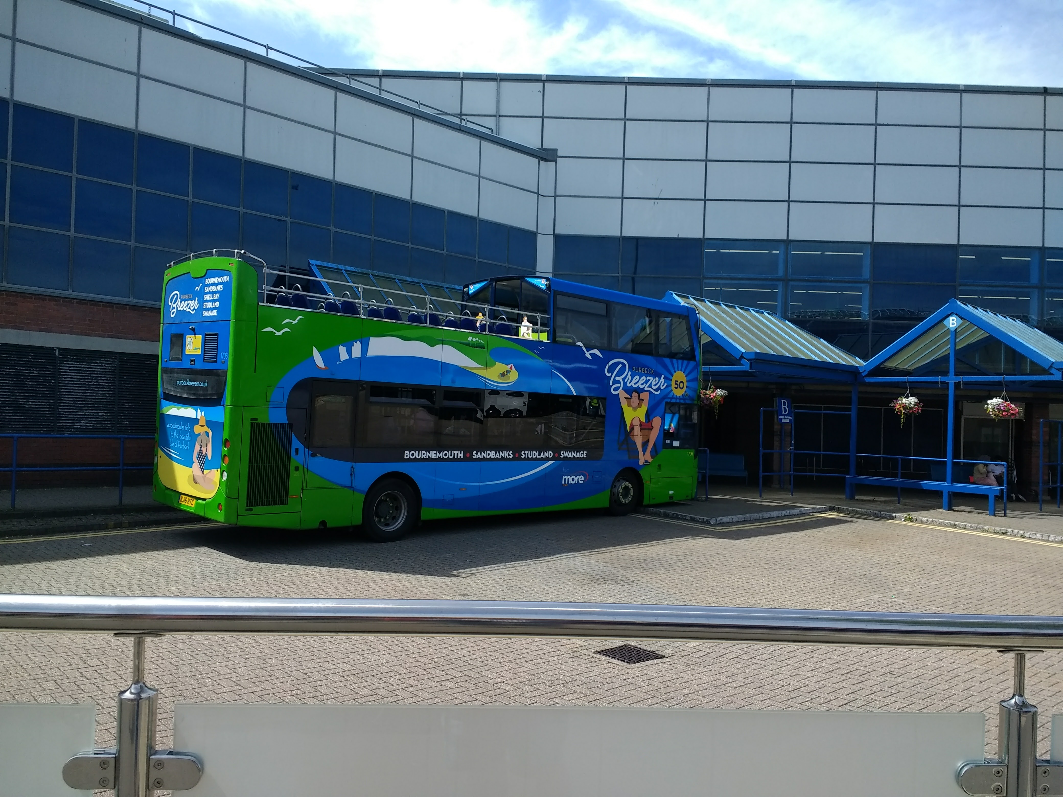 An open-top MCV EvoSeti branded for More Bus' route 50, from Bournemouth to Swanage.